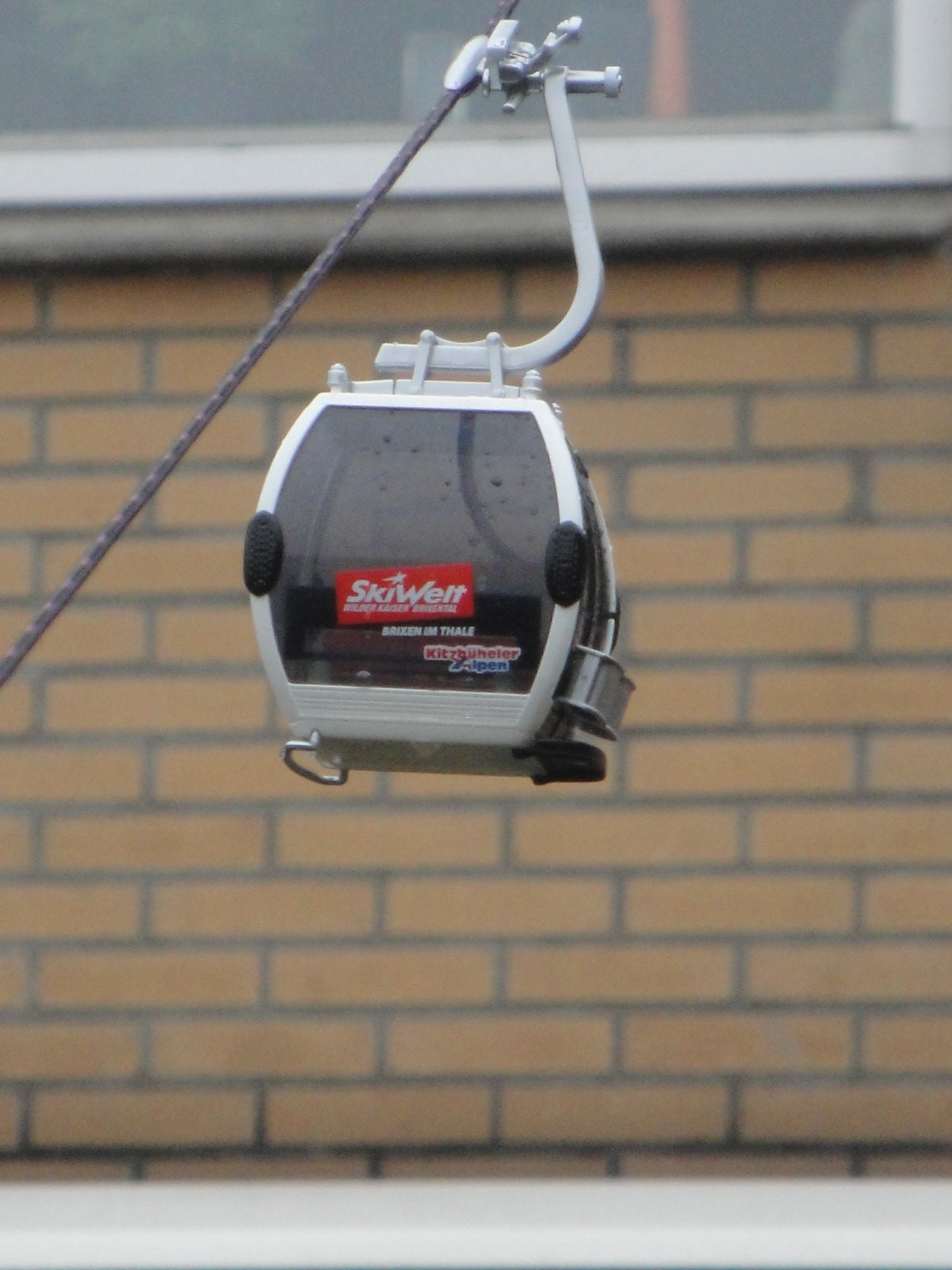 Jägerndorfer Seilbahn SKIWELTBAHN